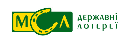 This is logo of ukrainian lottery company MSL